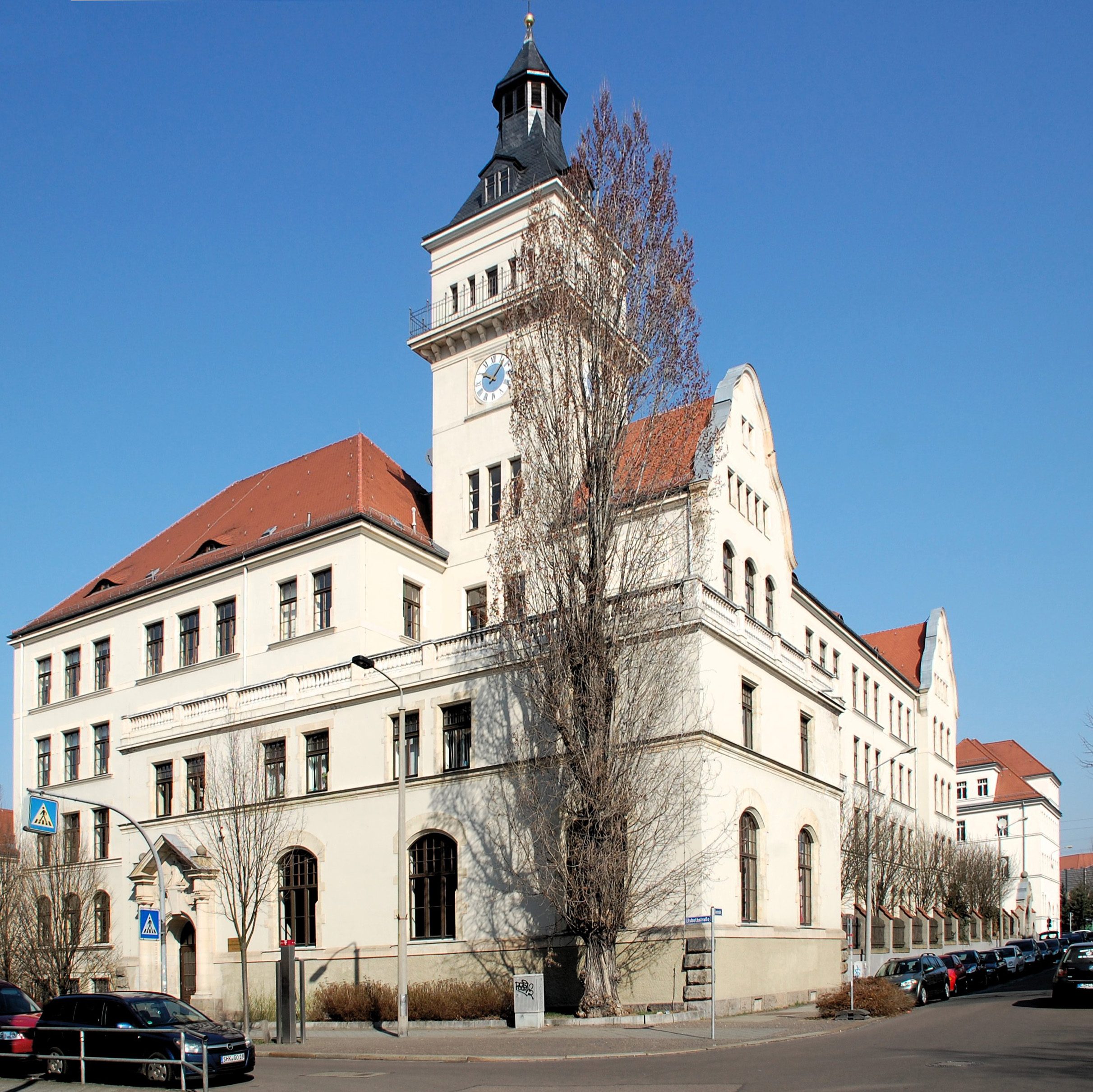 Friedrich-Schiller-School, Leipzig Germany